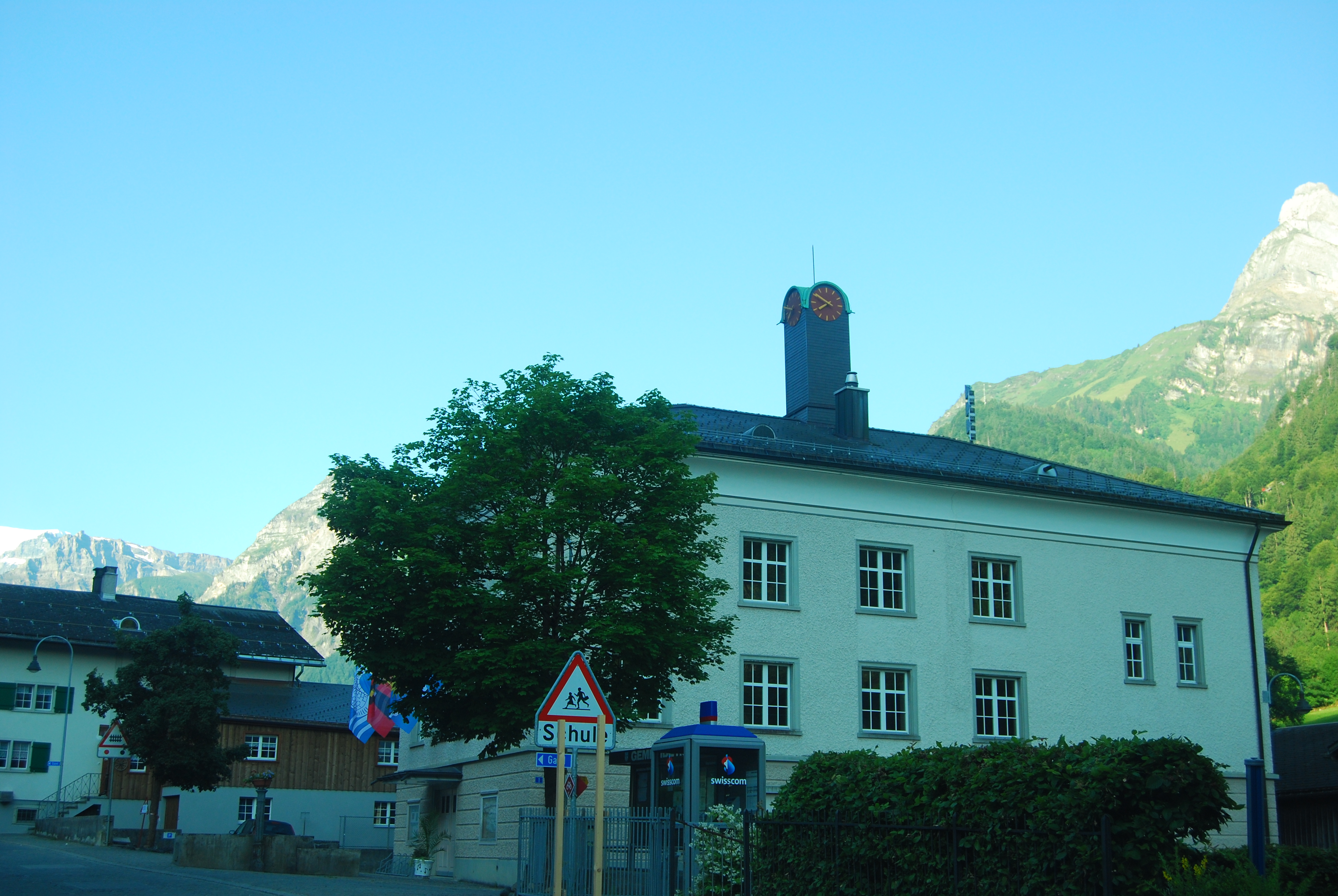 School of Rüti, canton of Glarus, Switzerland